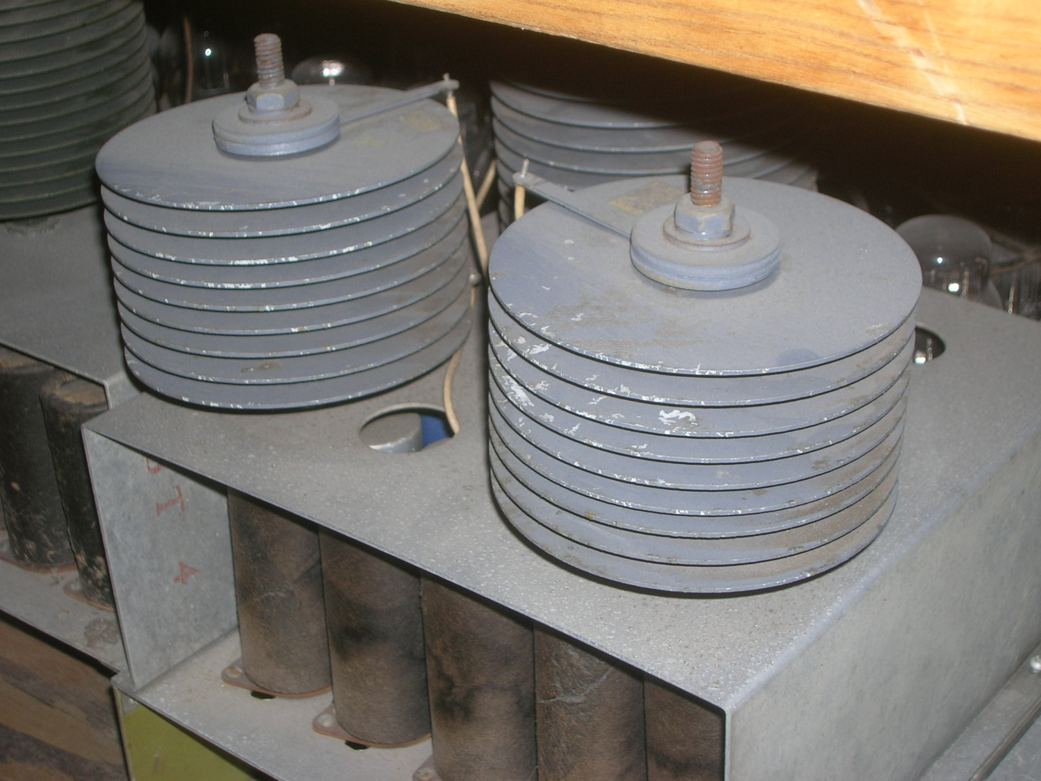 Selen Rectifier of MADDIDA taken at Computer History Museum by me